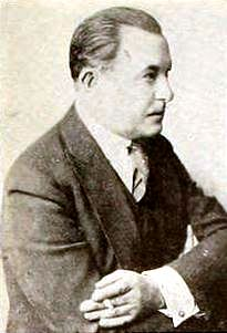 American film director and actor Charles A. Miller (1857 – 1936), on page 4013 of the May 8, 1920 Motion Picture News.